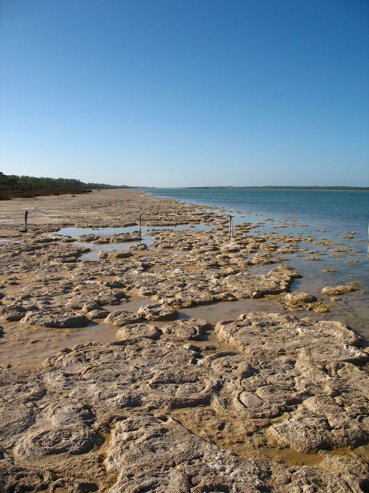 Stromatolites growing her in Yalgorup national park in Australia (there are also other stromatolithes in Shark Bay and in Western Australia. Stromatolites are "attached, lithified "sedimentary" growth structures, accretionary away from a point or limited surface of initiation."